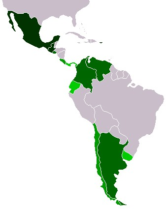 Map of contestants of Latin American Idol 2